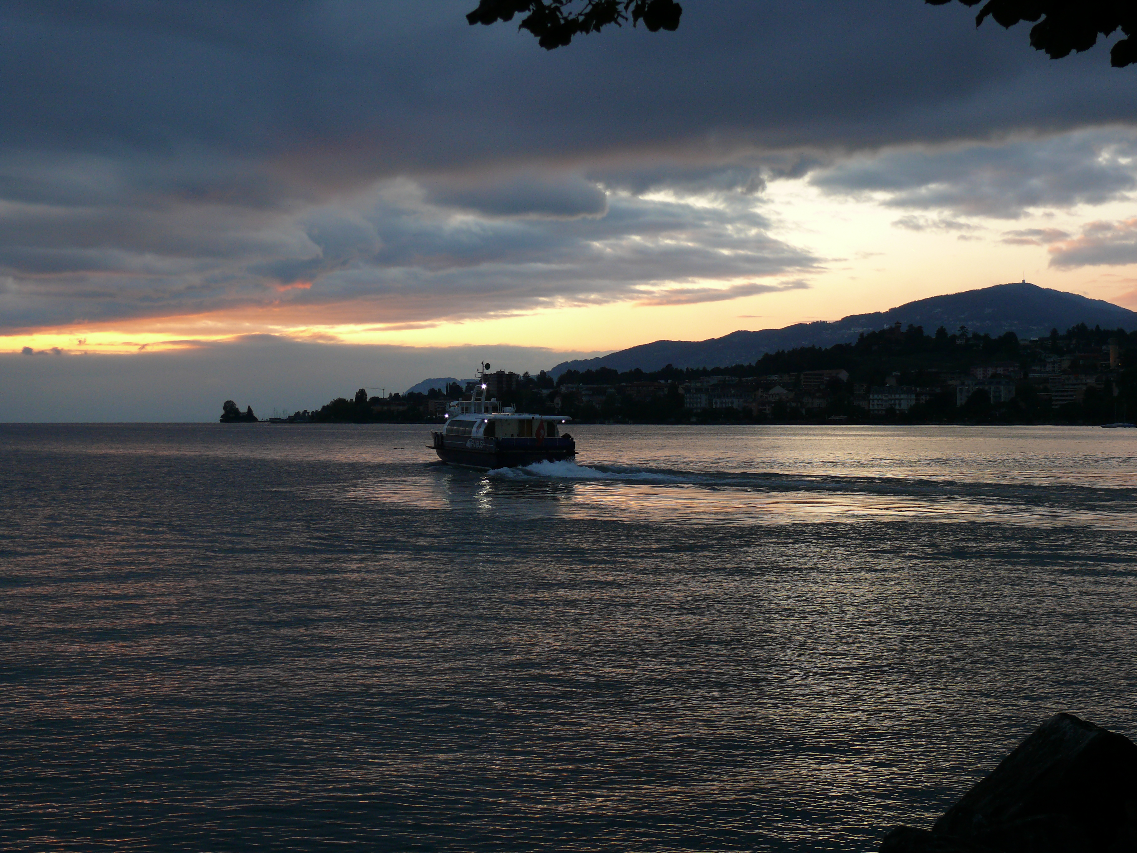 Picture of Mont Pelerin, Switzerland, Vaud from Montreux